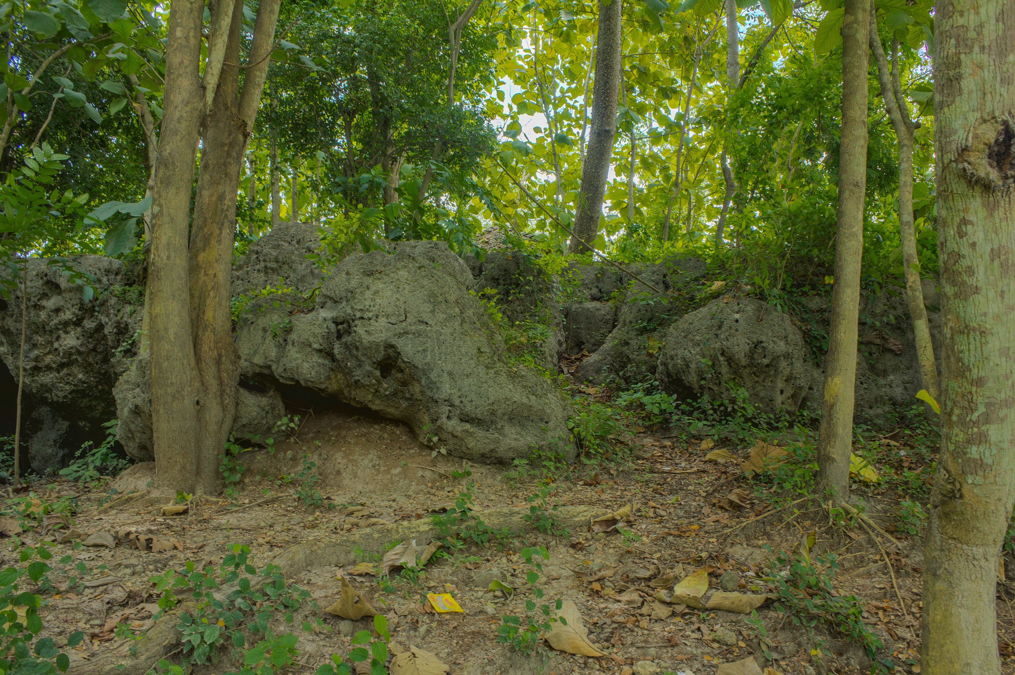 Watu Ngelak, a rock formation in Puton, Desa Trimulyo, Jetis, Bantul